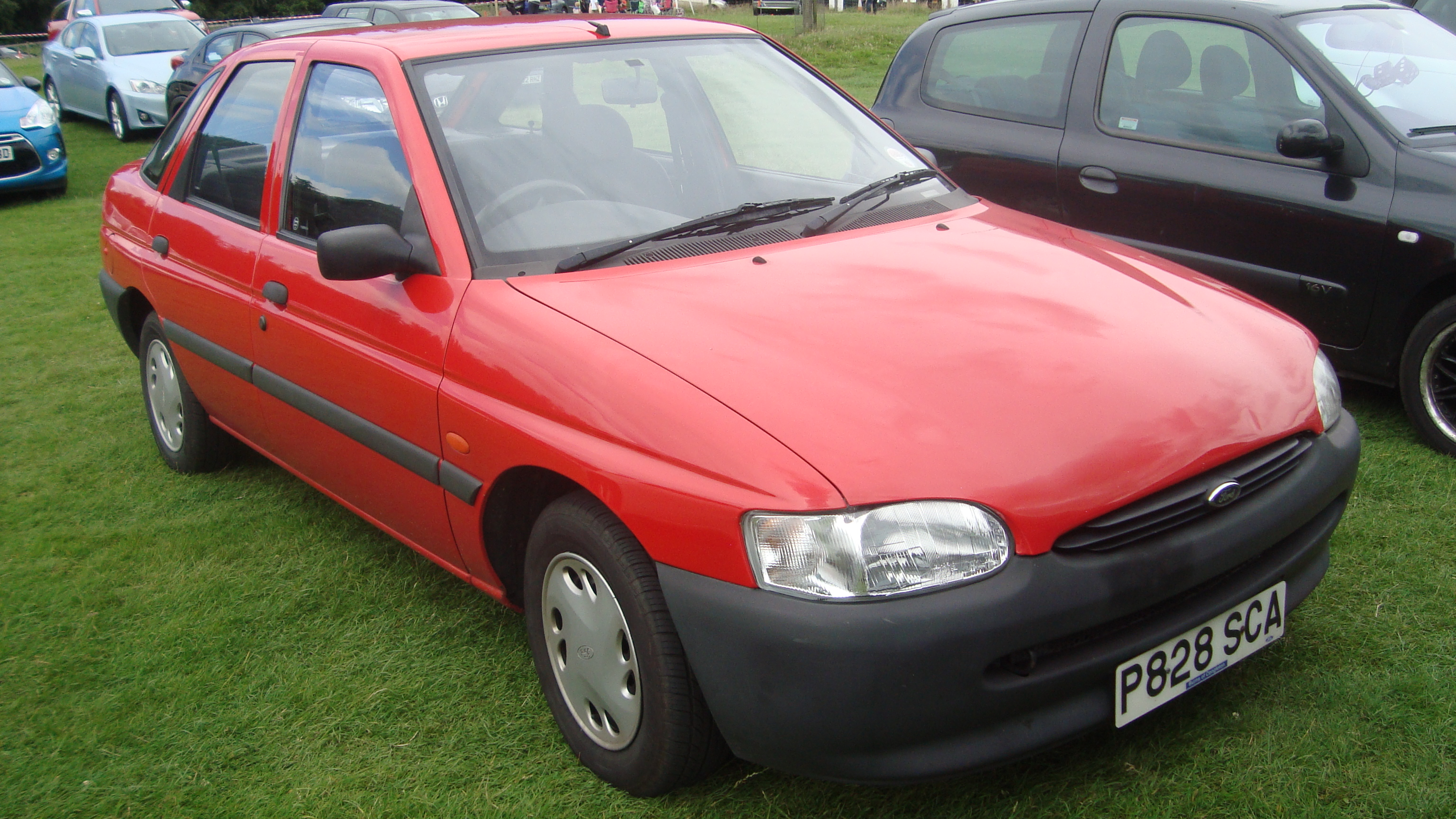 Really starting to notice these lower spec Mk6's now, this one was in lovely condition